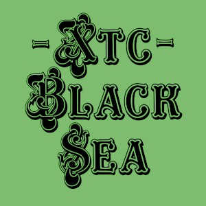 Bag in which some copies of the LP "Black Sea" by XTC were supplied